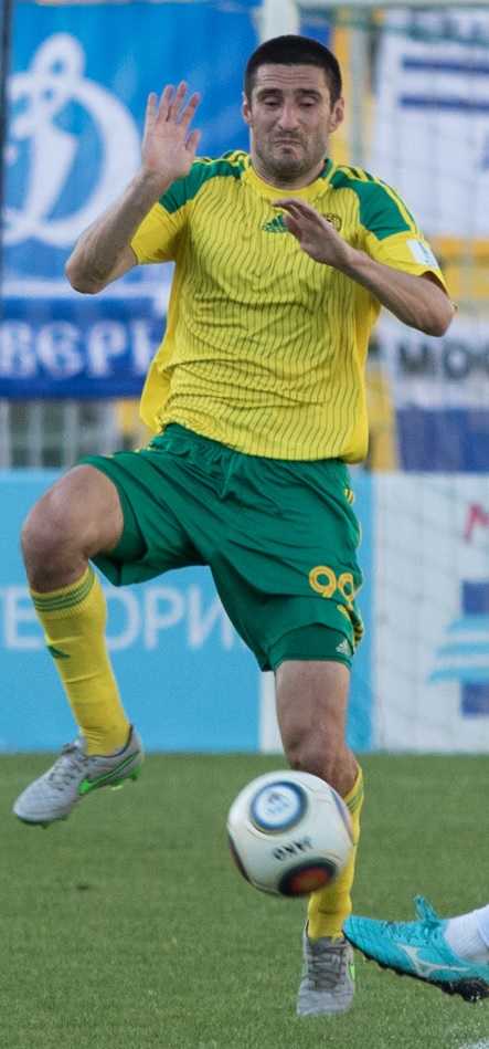 Spartak Gogniev with FC Kuban Krasnodar in a game against FC Dynamo Moscow.